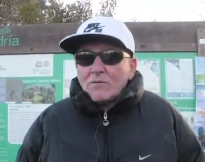 In a 2018 news interview